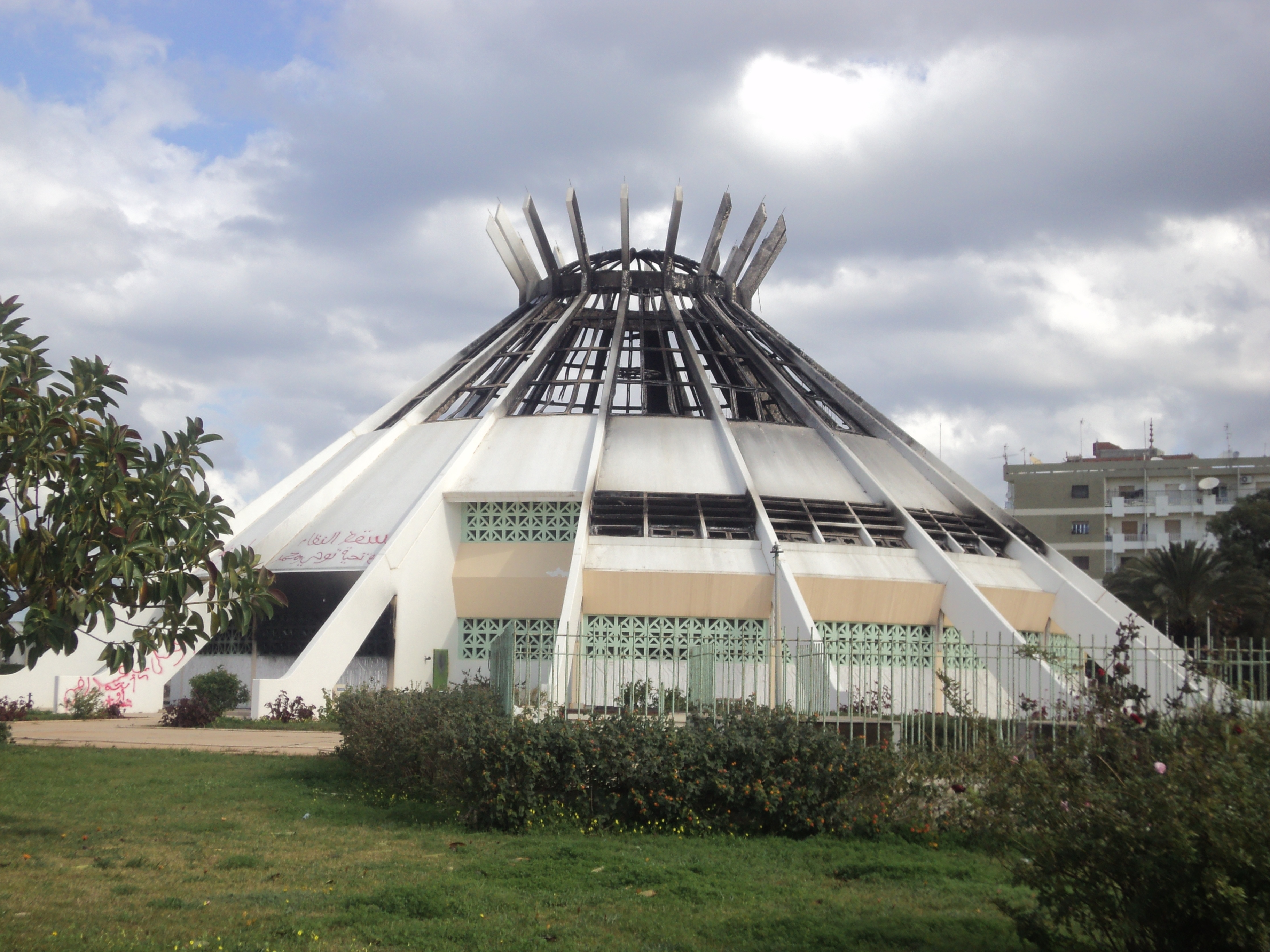 A revolutionary committee office after fire in Benghazi's downtown.